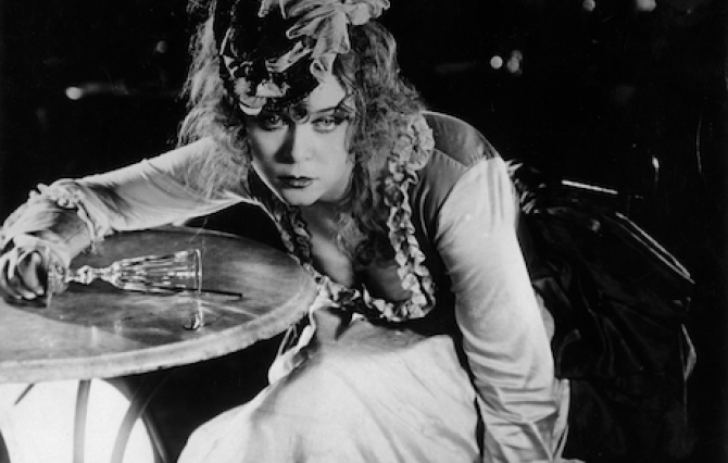 A still from Kozintsev's & Trauberg's The New Babylon.